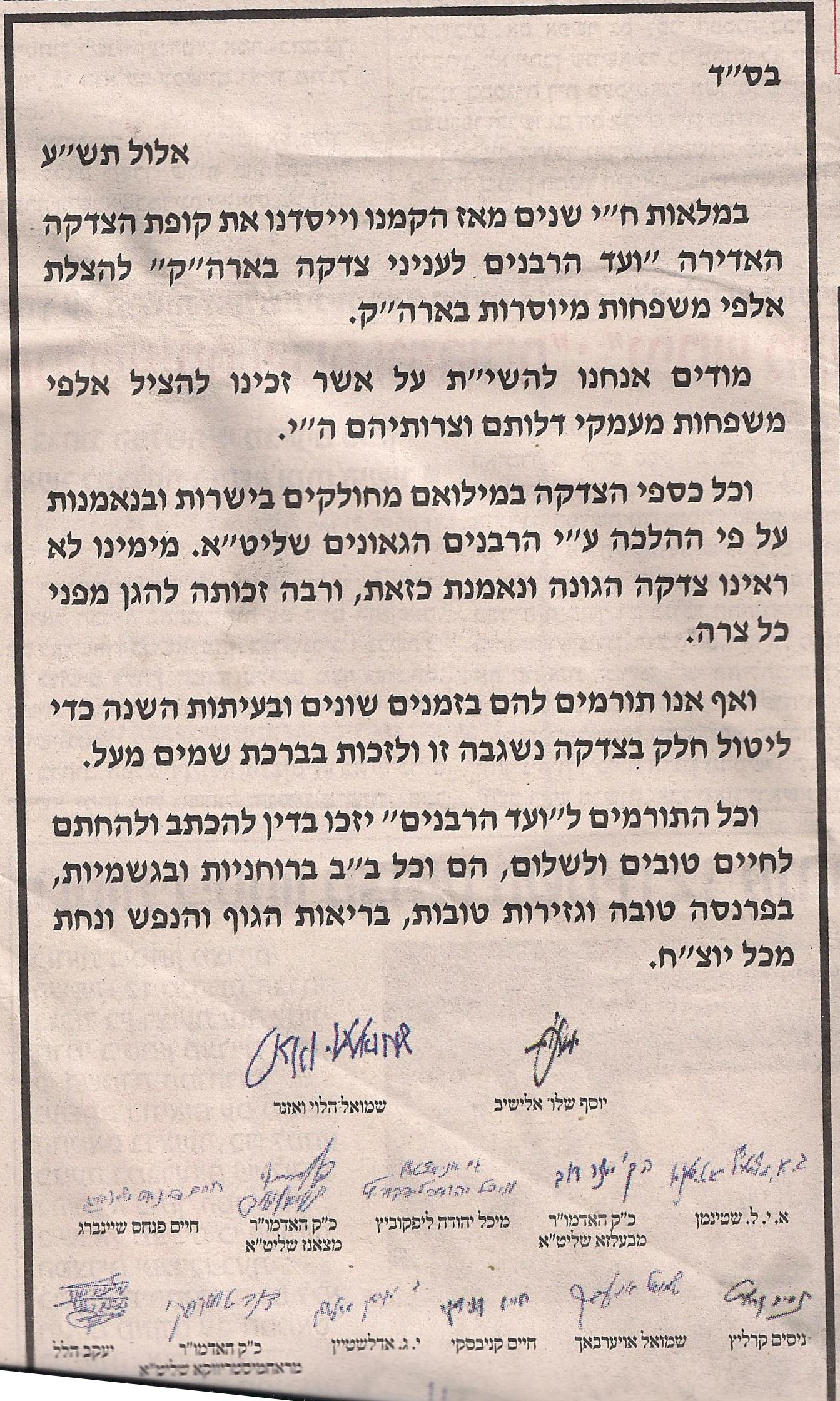 vaad harabanim